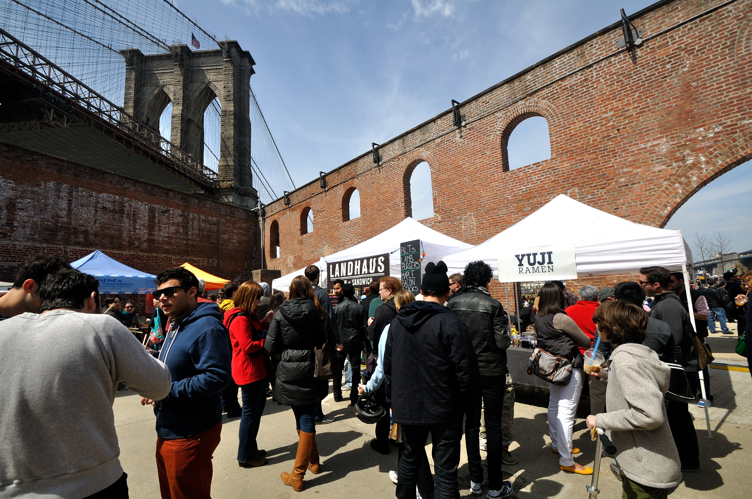 Smorgasburg, a regular market of local food options, in the Dumbo neighborhood of Brooklyn, New York